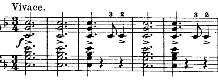 Excerpt from Chopin's Op 34, containing three waltzes.